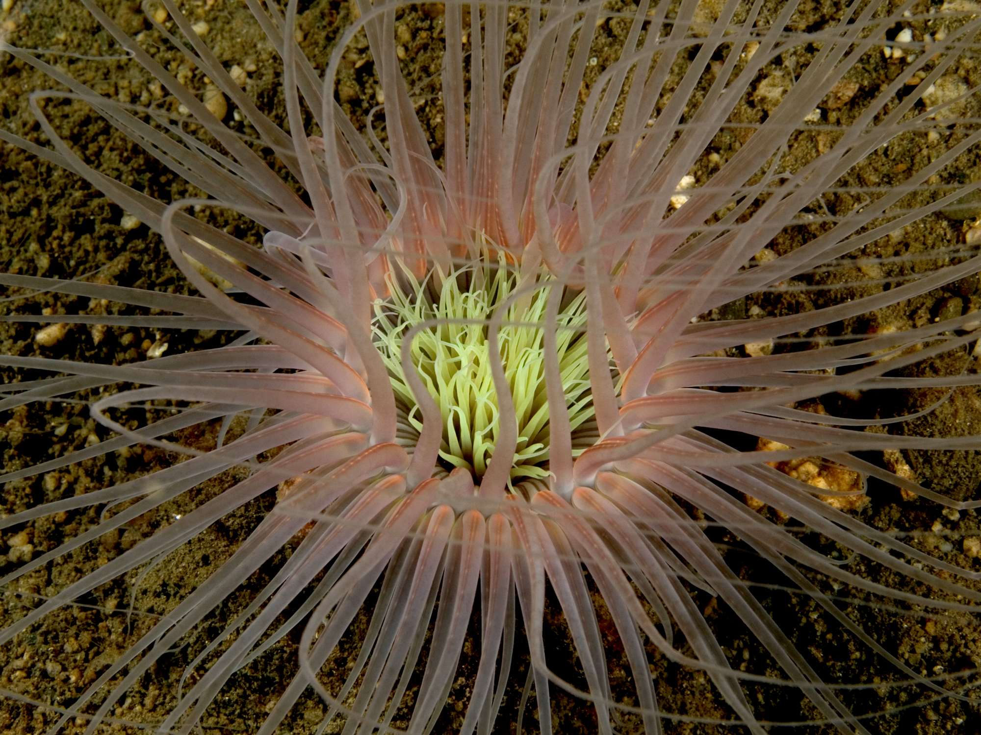 Ceriantharia (Tube anemone) pink